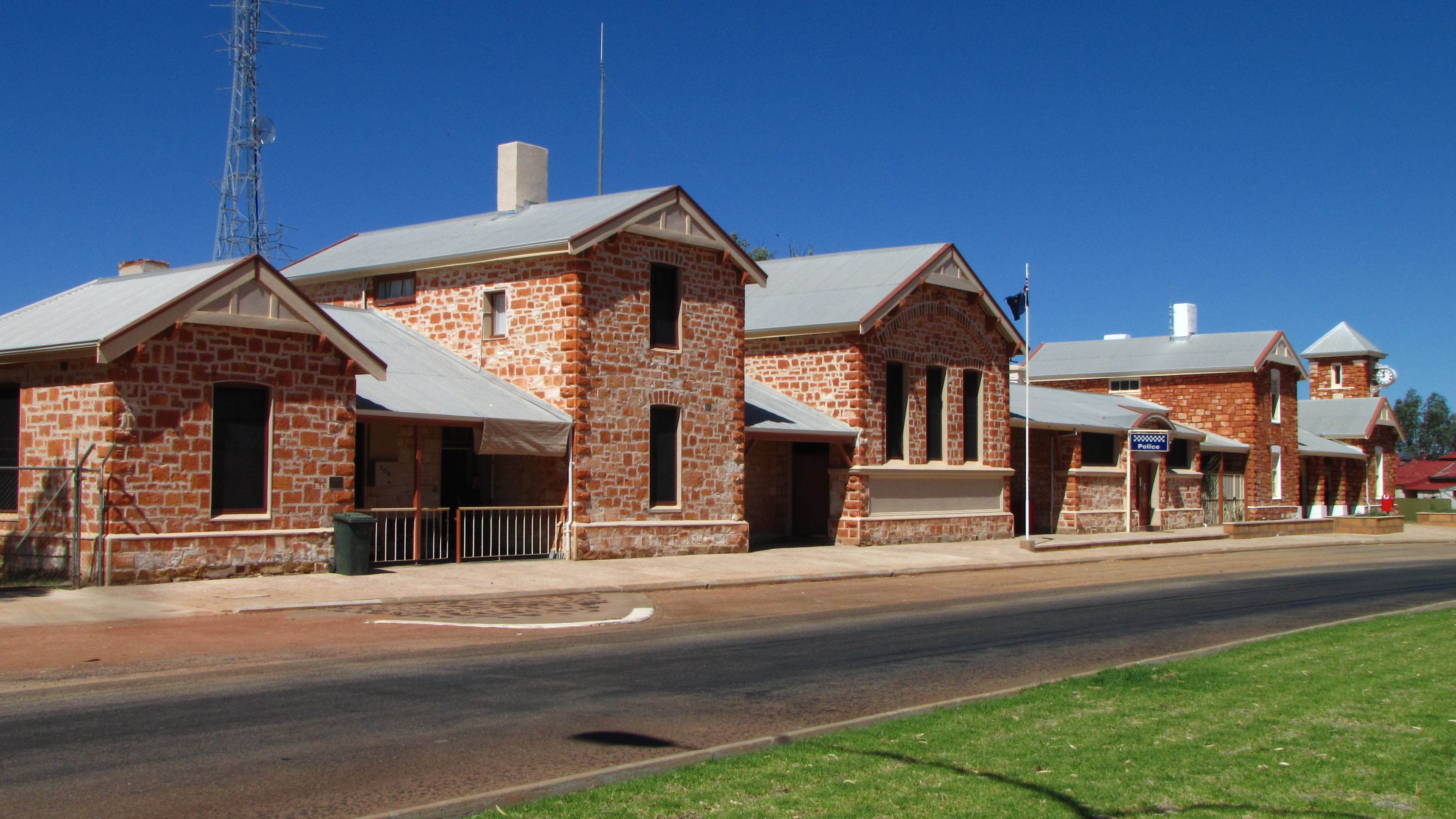 The police station in Cue, Western Australia, built in 1896.